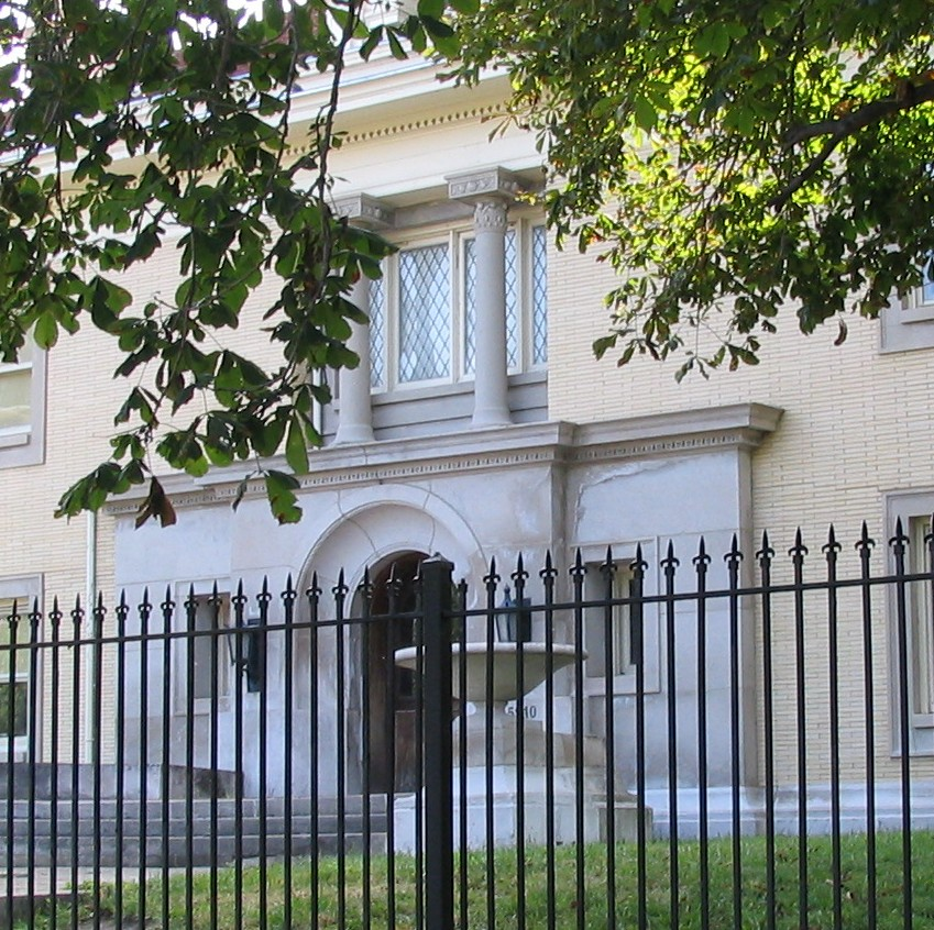 The Alexander Colvin house, 5904 N Sheridan Road, Chicago, IL. George Washington Maher, architect, 1909. Detail of the front door